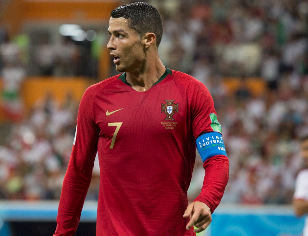 Iran-Portugal match, 2018 FIFA World Cup Group B